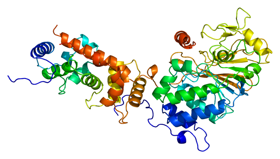 Structure of the PPP3CA protein. Based on PyMOL rendering of PDB 1aui.